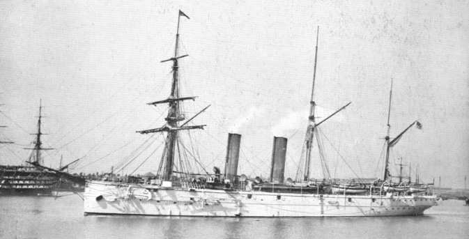 Photograph of British Iris class cruiser HMS Mercury.